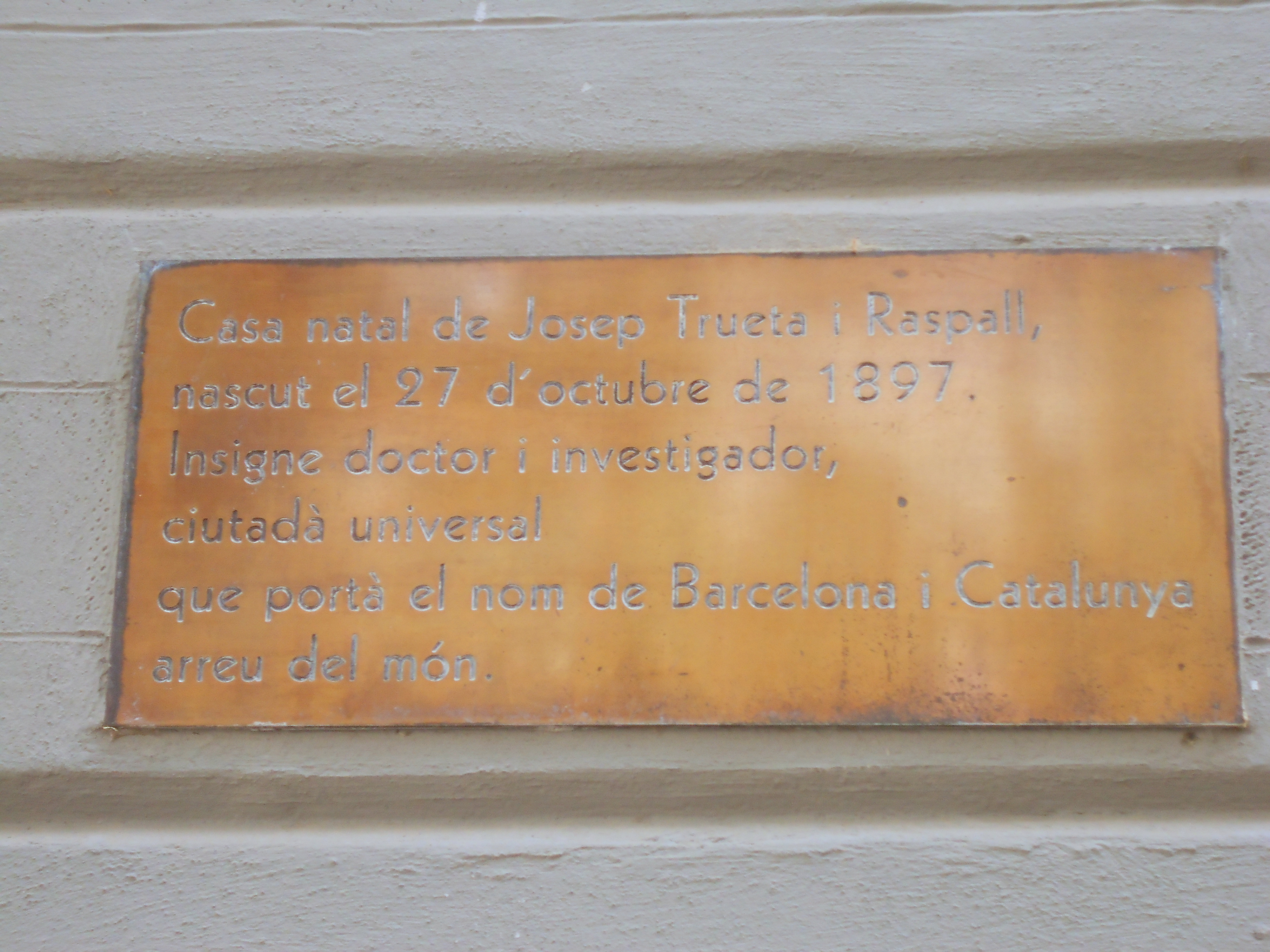 Plaque in honor of Dr. Josep Trueta i Raspall, located at number 236 of Carrer Dr. Trueta in Poblenou.